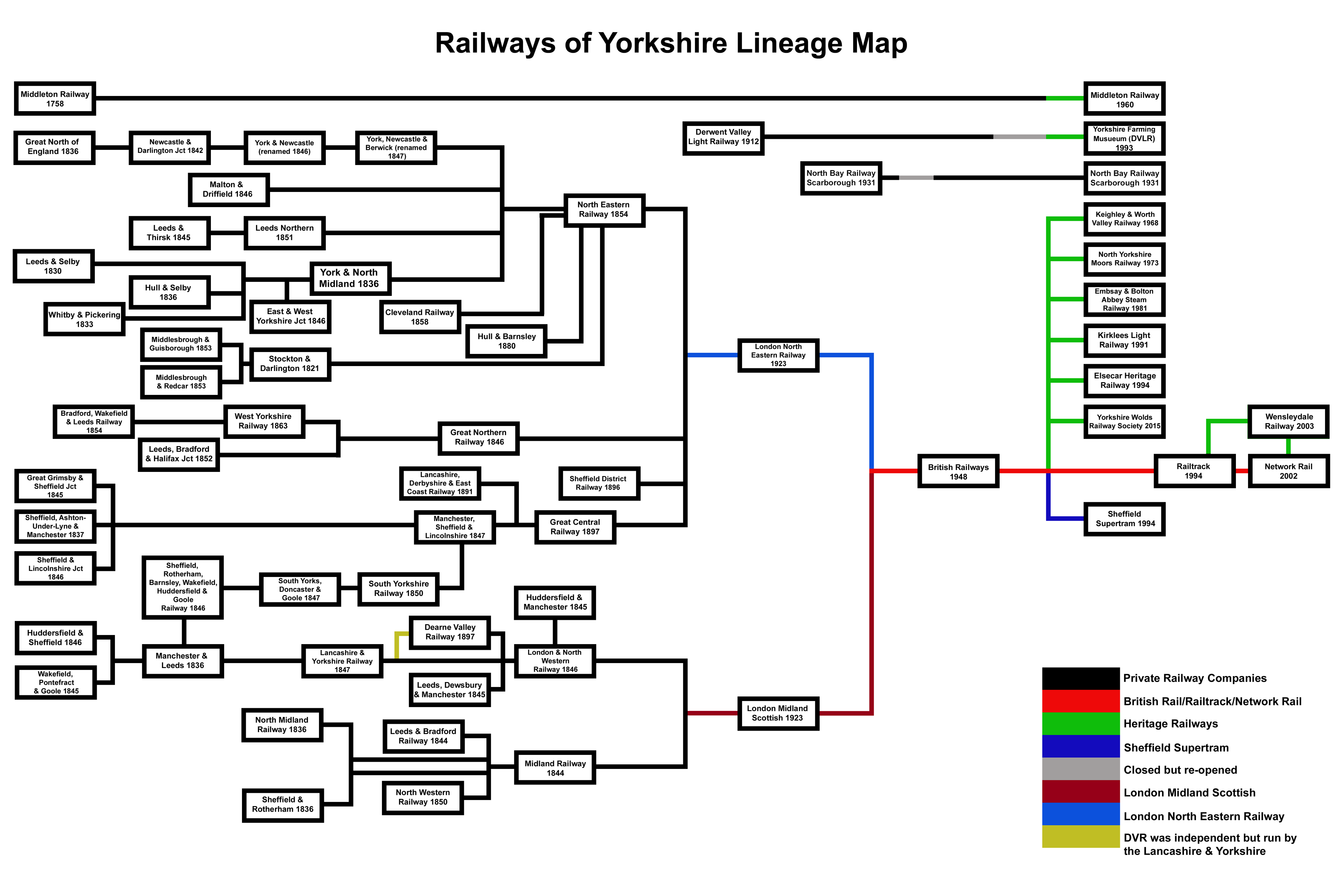 Map to show how the railways in Yorkshire were created from smaller railways. Lists from 1758 to present day.